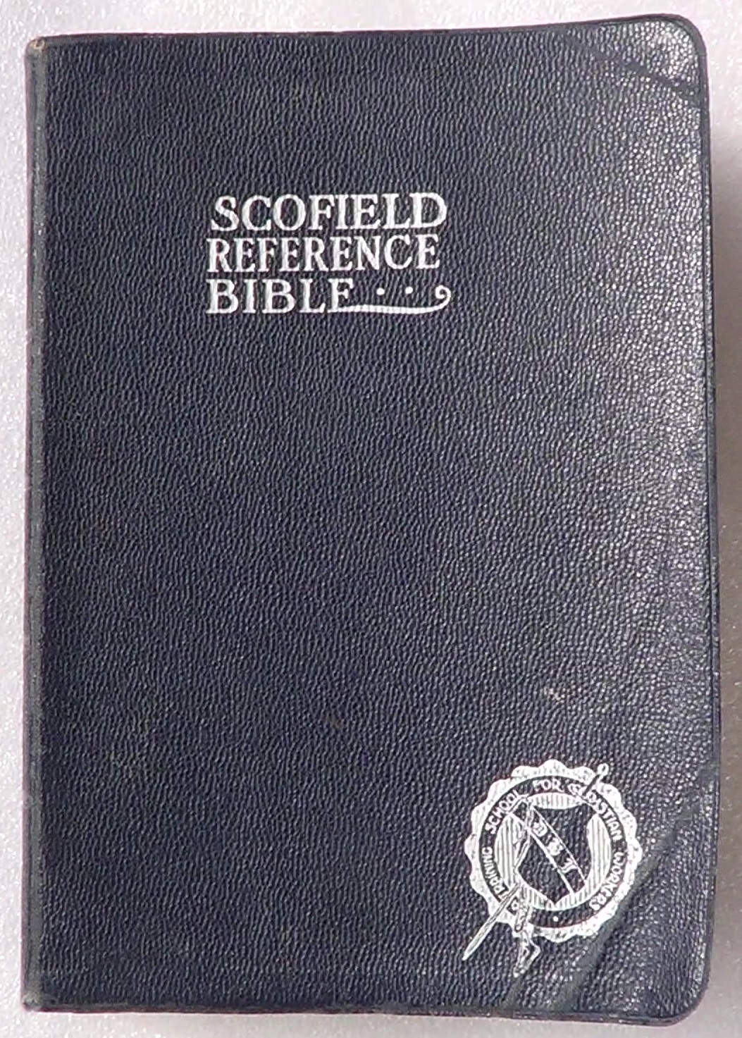 Cover of an actual1917 Scofield Bible.